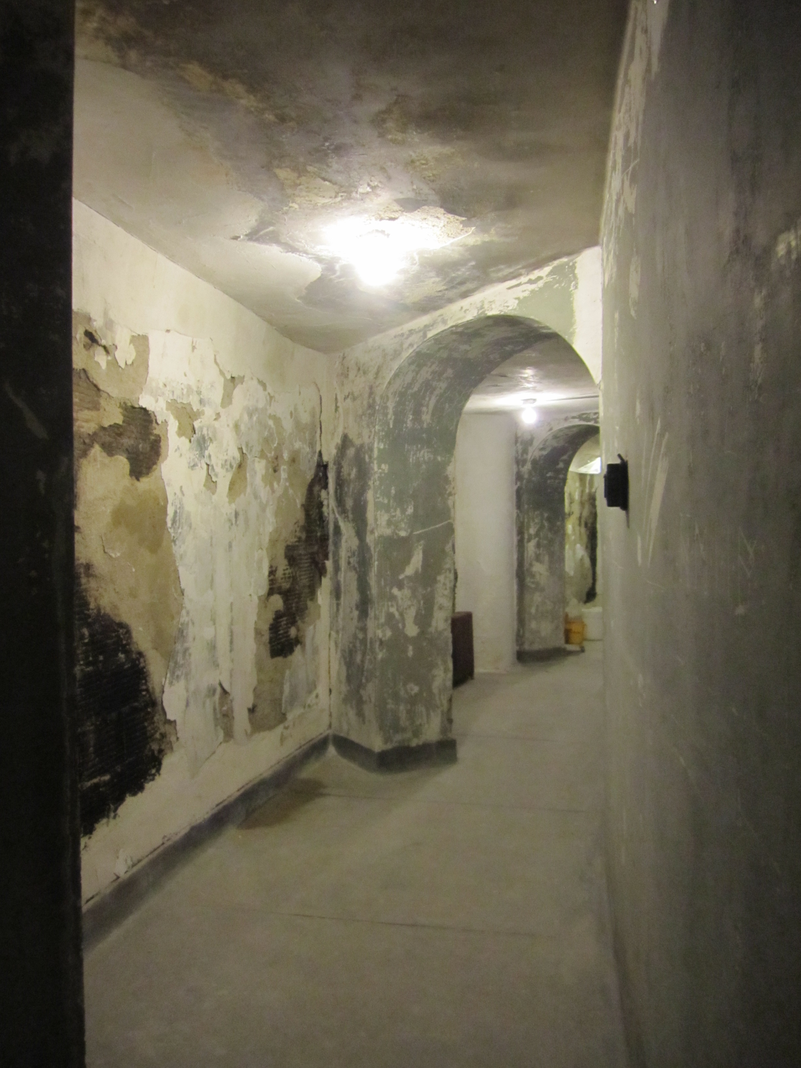 Union Terminal in Cincinnati, Ohio.